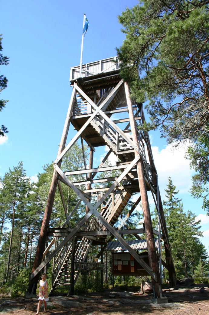 This is the tower on the Renstadsnipa.